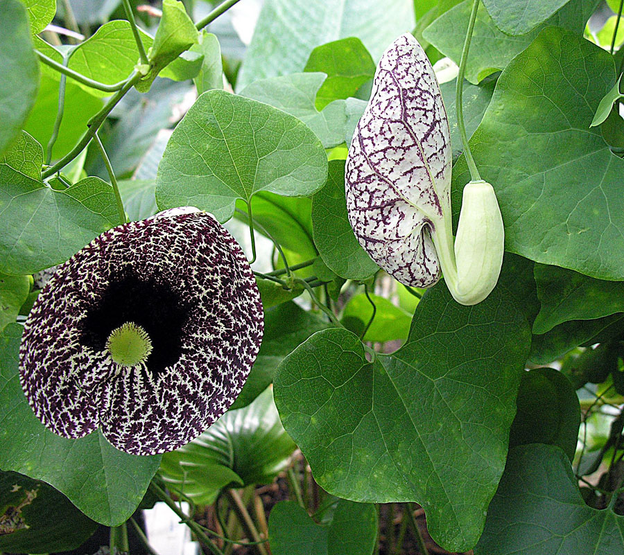 One of the species known as Dutchman's Pipe. Native from southern Mexico to Costa Rica. KEW Gardens, London. In context at